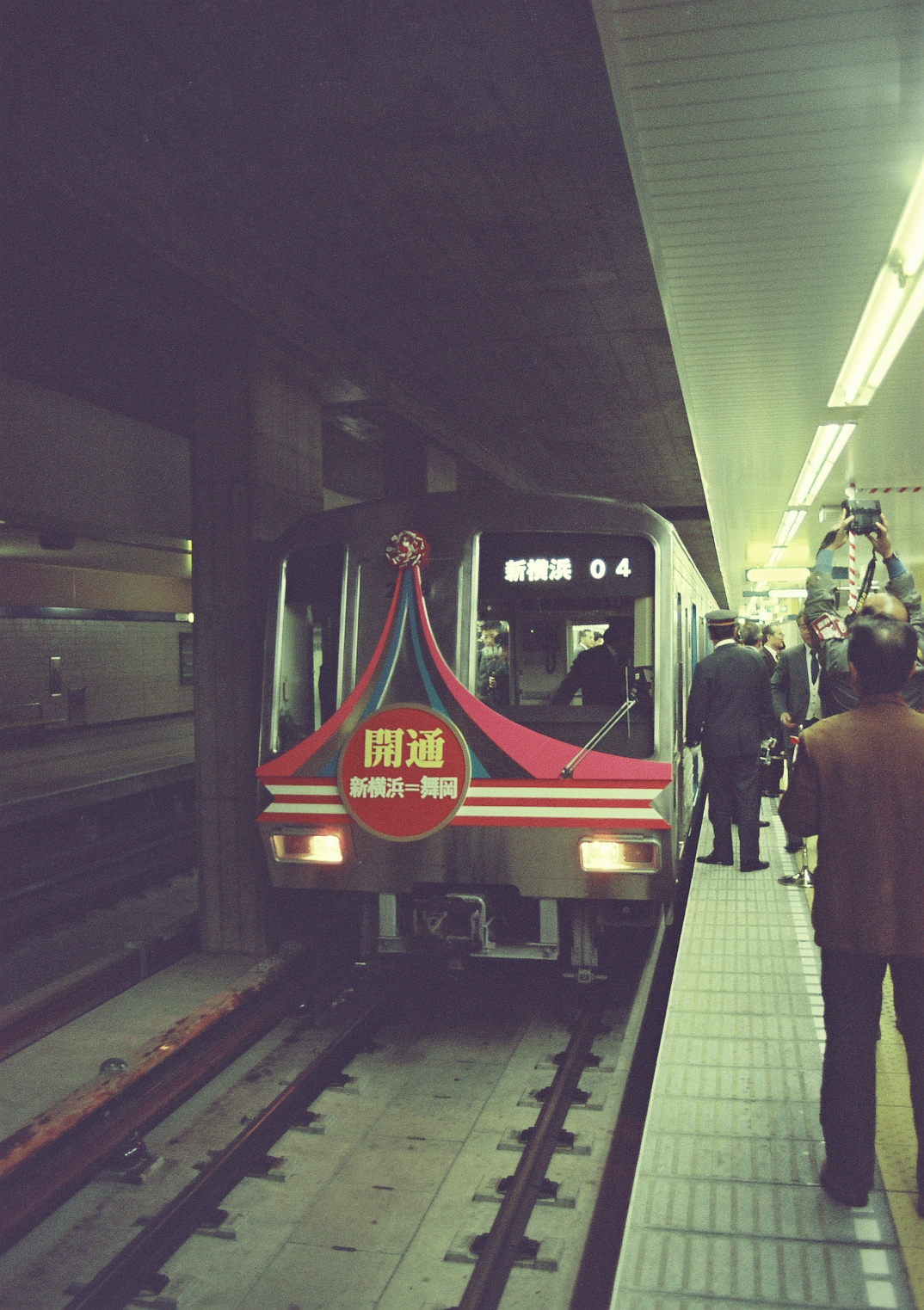 Maioka Station of the Yokohama Municipal Subway on the day of opening